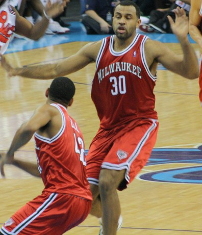 Chris Paul "really weird pass" over Malik Allen.